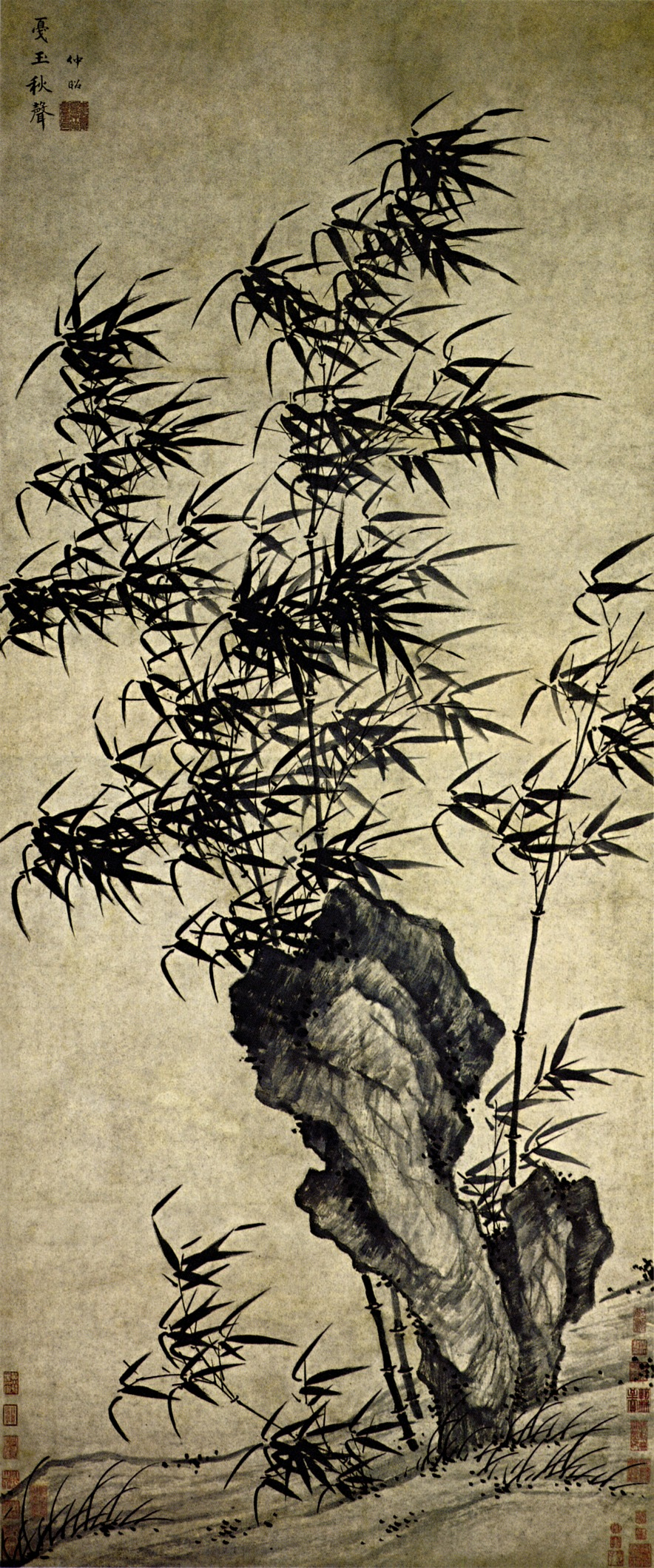 Tapping Jade Autumn Sound, hanging scroll, ink on paper, 151 x 63.7 cm. Located at the Shanghai Museum